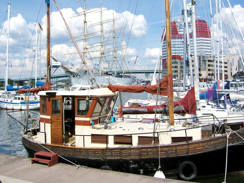 The marina at Lilla Bommen and the bark Viking in Göteborg, Sweden